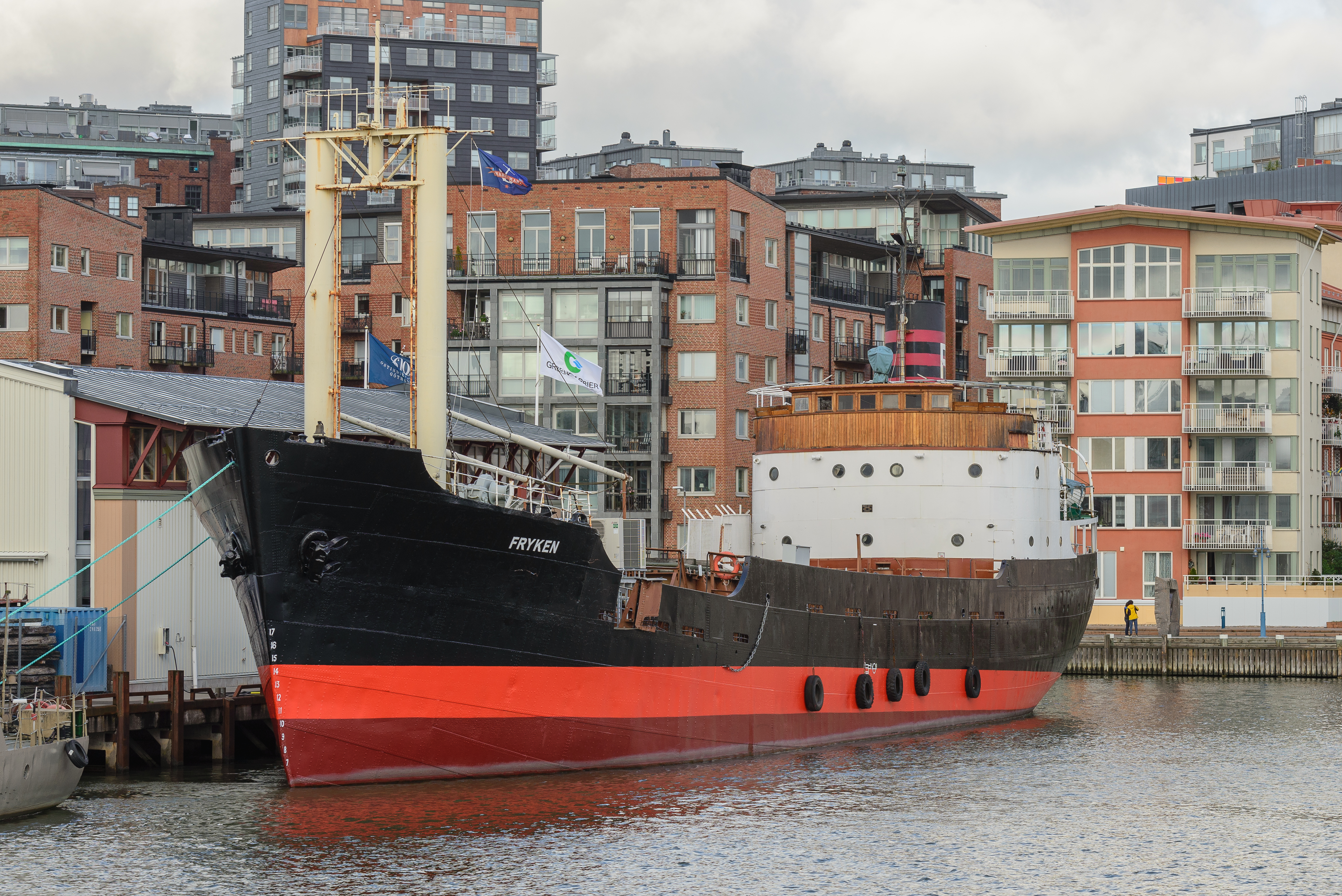 Fryken is a historic cargo ship. Today a museum ship in Gothenburg, Sweden. Photo taken in Eriksberg, Gothenburg. This is an image of a protected Swedish ship, with call sign SDIE .